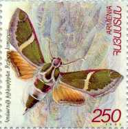 Stamp of Armenia